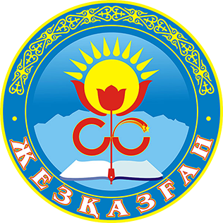 Coat of Arms, Zhezkazgan city